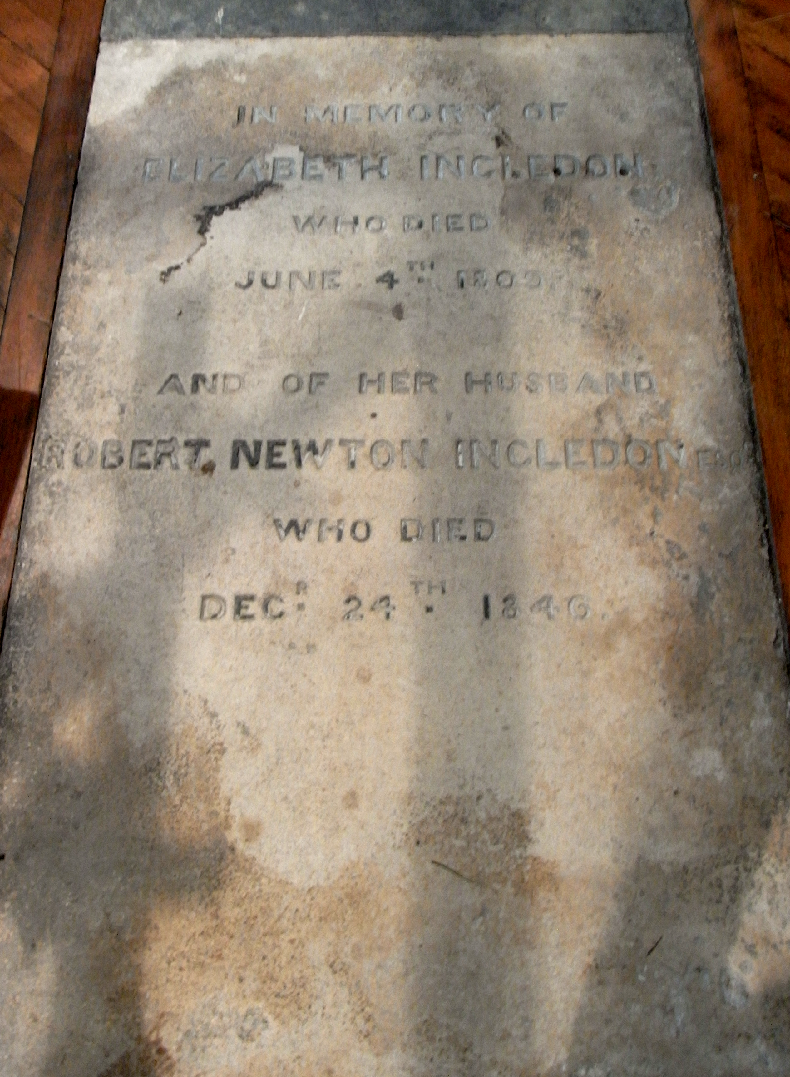 Ledger stone in the floor of the south chancel aisle of St Nicholas' parish church, Pilton, Devon, to Robert Newton Incledon (1761–1846), eldest son of Benjamin Incledon (1730–96) of Pilton House, Pilton, near Barnstaple, an antiquarian and genealogist and Recorder of the Borough of Barnstaple (1758–96). Inscription: "In memory of Elizabeth Incledon who died June 4th 1809. And of her husband Robert Newton Incledon Esqr., who died Decr. 24th 1846"